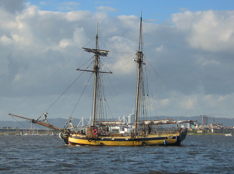 HMS Pickle in Cardiff Bay